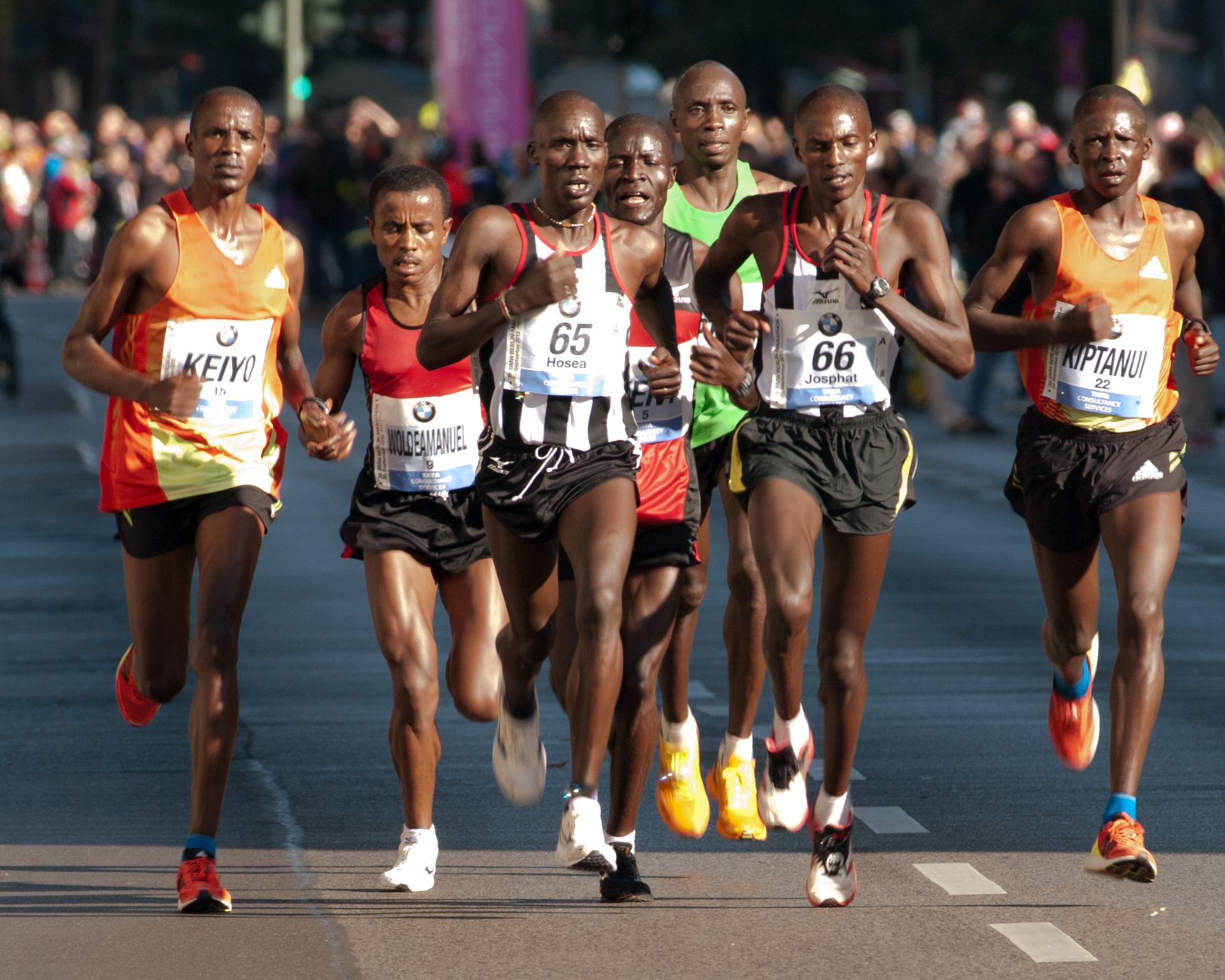 Elite runners at the Berlin Marathon 2012 passing Kleistpark between Kilometers 21 and 22.